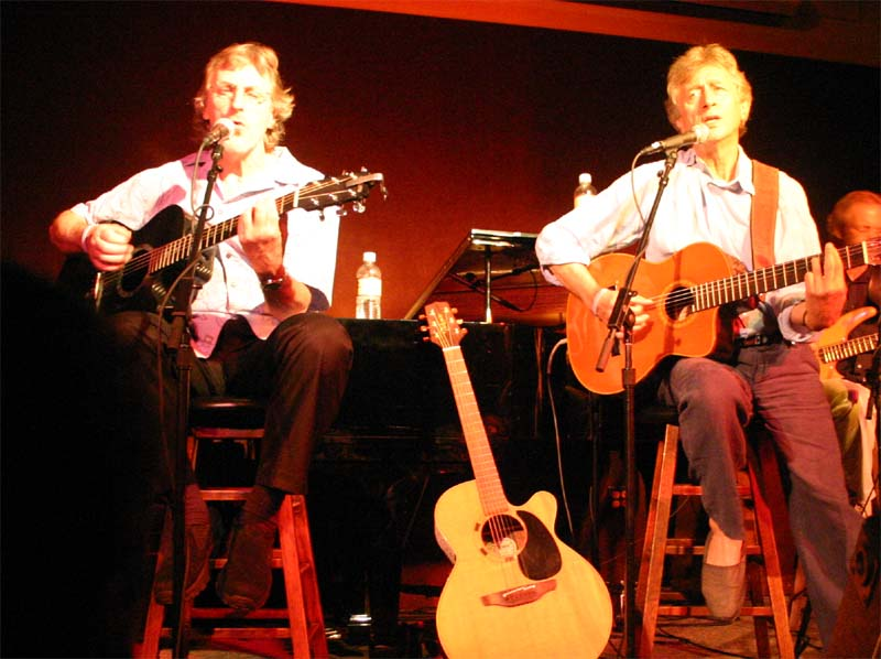 This is a photo of Chad and Jeremy that I took in 2005 and putting into public domain.